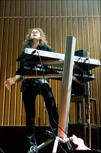 Manuel Ramil performing live on a concert in Spain, 2007.